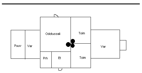 Ground plan of Hietamäki railway station in Mietoinen, Finland